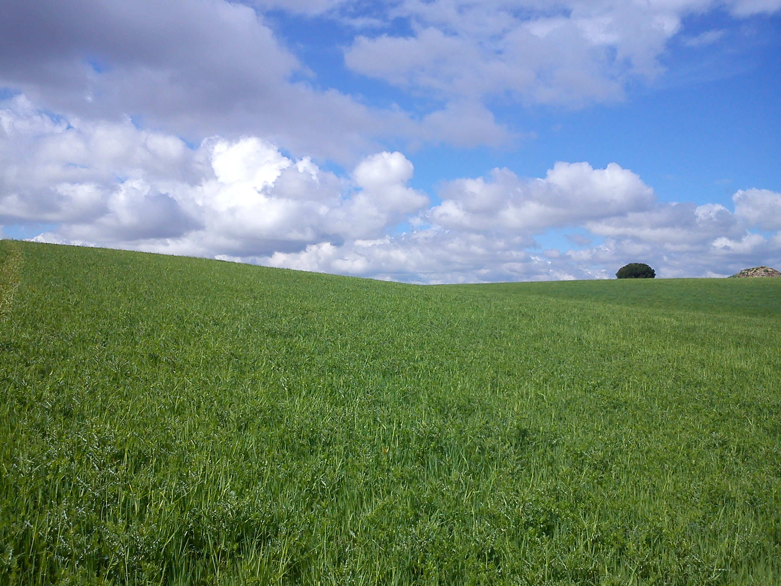 Pradera en Morales del Rey